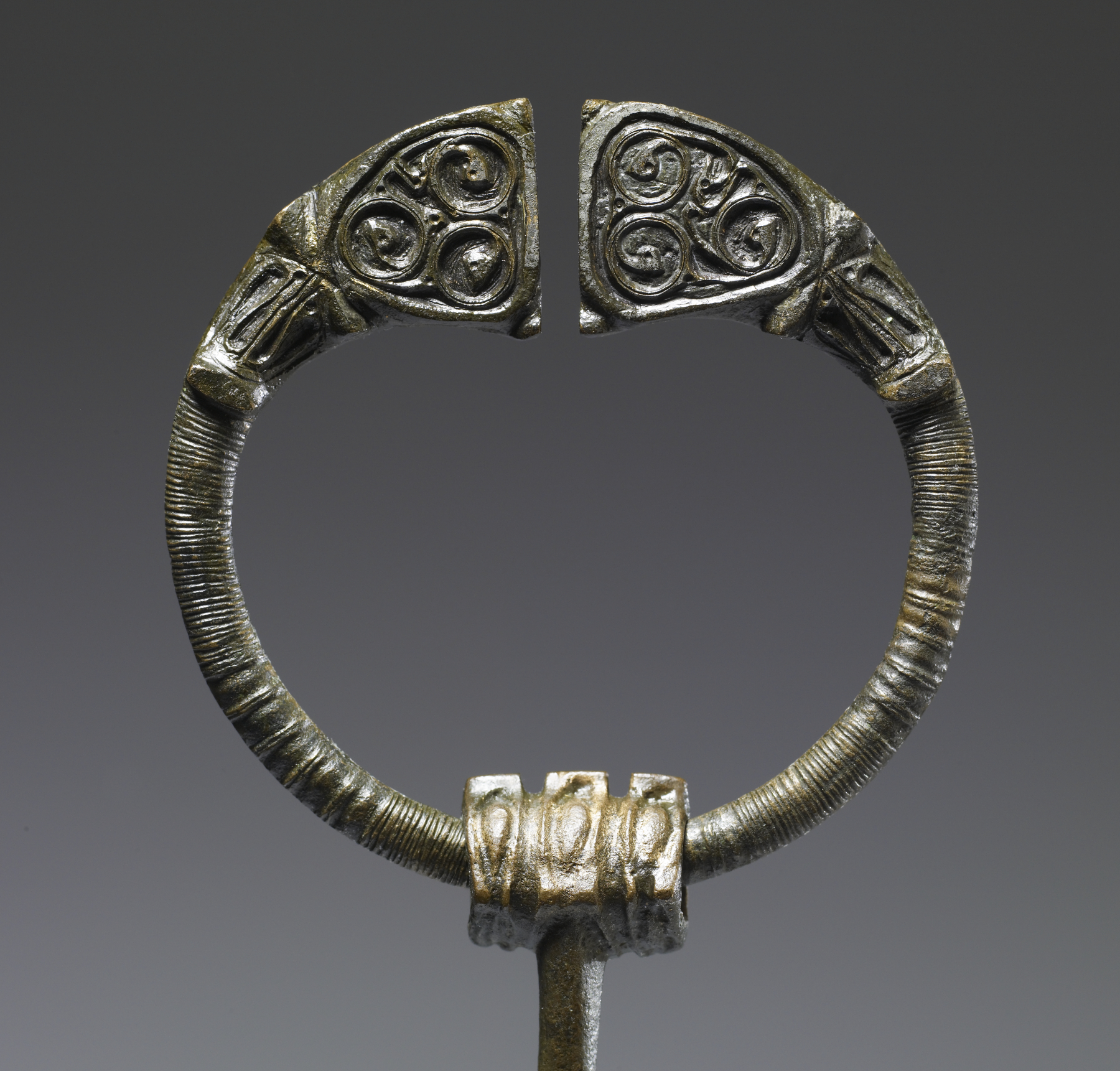 Pins of this kind developed from Roman models and were fashionable as cloak fasteners from the 4th through the 10th centuries in the British Isles. The wearer pierced the fabric with the pin pointed upwards or to the side and twisted the round hoop (described as penannular because it takes the shape of an incomplete circle) to lock the pin and gathered fabric in place. Originally, this early medieval Irish brooch would have had red enamel in the hollowed out areas making a richly colored background for the bronze spirals on the terminals and the hatched and oval decorations on the pin.